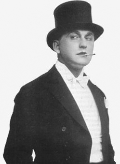 A pre-revolutionary photograph of Alexander Vertinsky